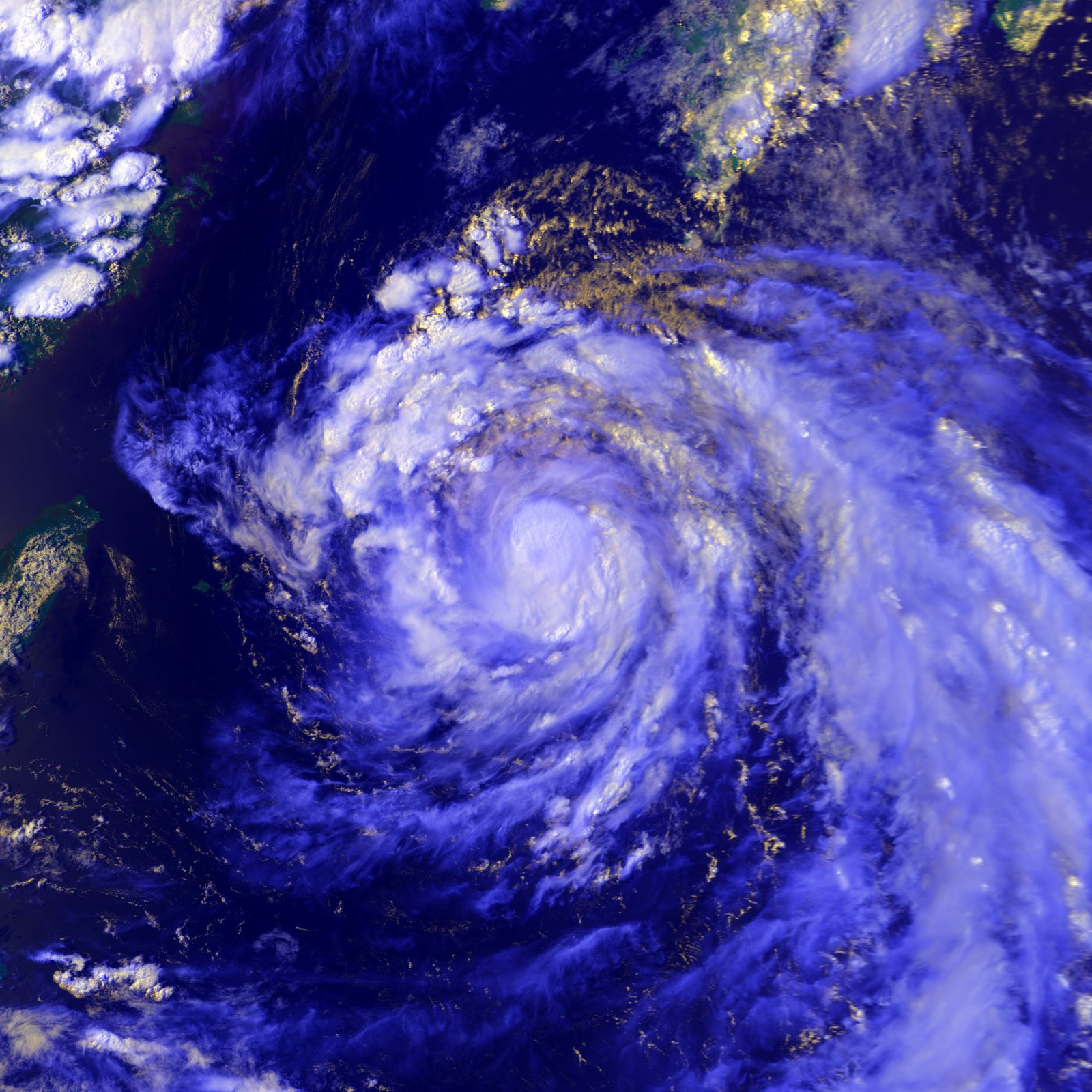 Typhoon Olga near peak intensity south of the Ryukyu Islands on August 1, 1999